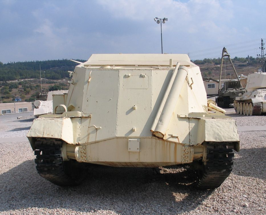 Description: Archer tank destroyer in Yad la-Shiryon Museum, Israel. 2005. Source: Photo by me, User:Bukvoed